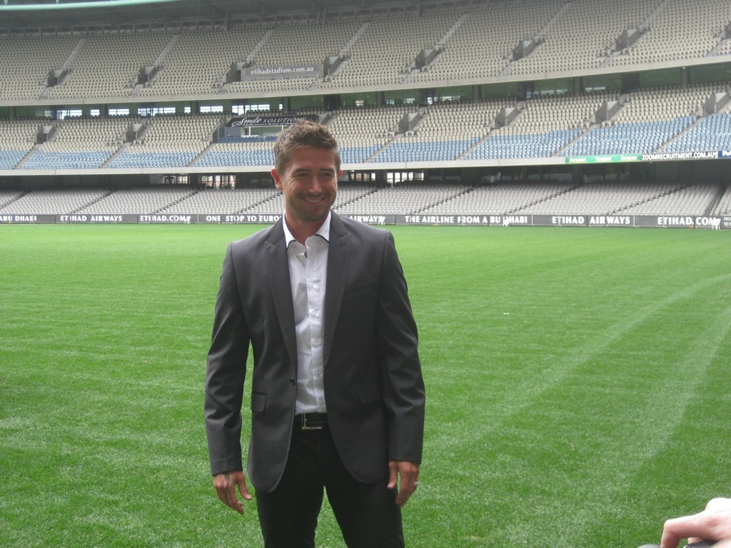 Harry Kewell is introduced as a new signing for the Melbourne Victory.